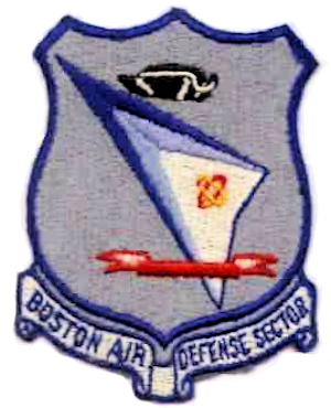 Emblem of the Boston Air Defense Sector